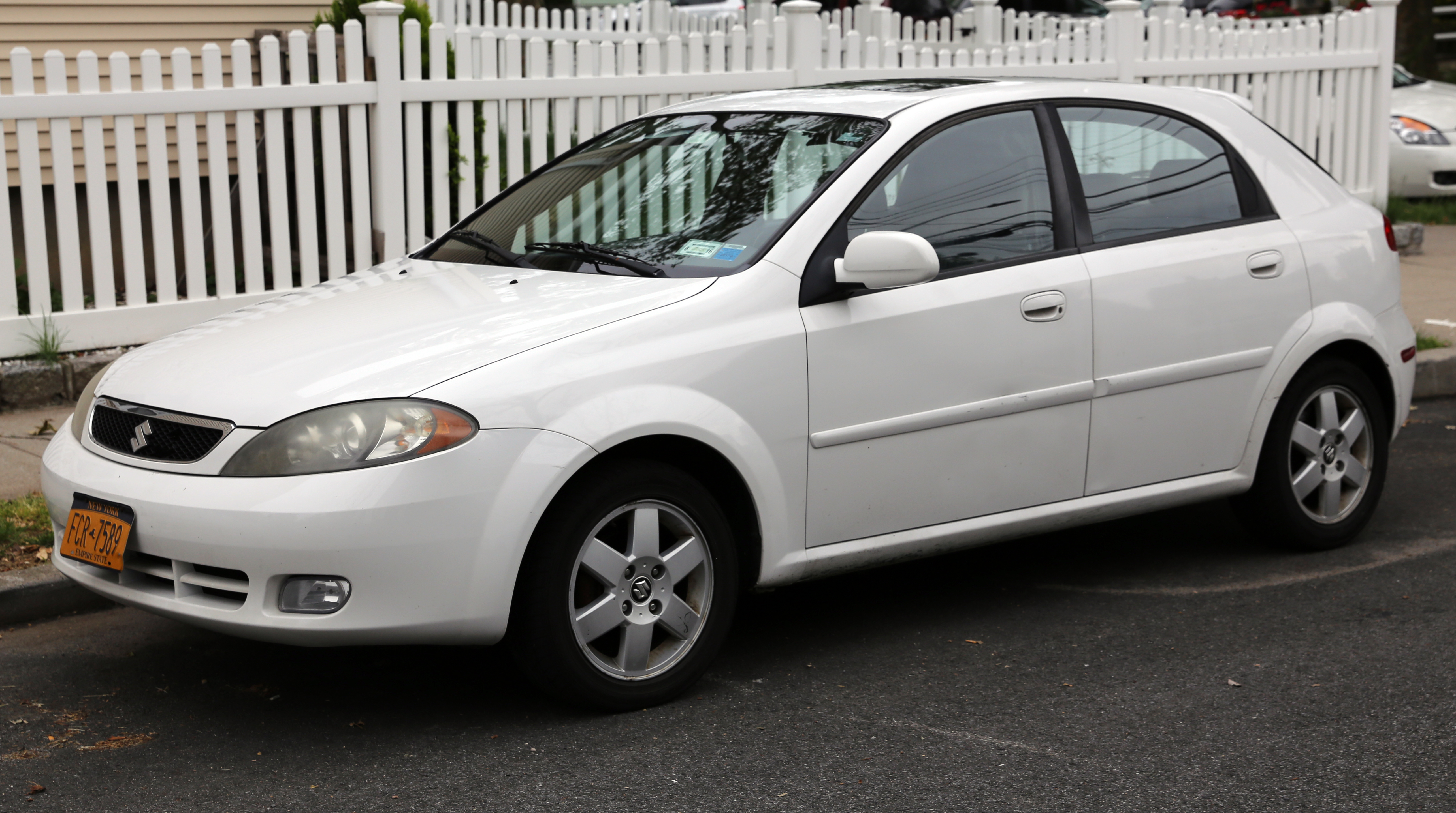 A 2005 Suzuki Reno LX (US version of the Daewoo Lacetti hatchback).